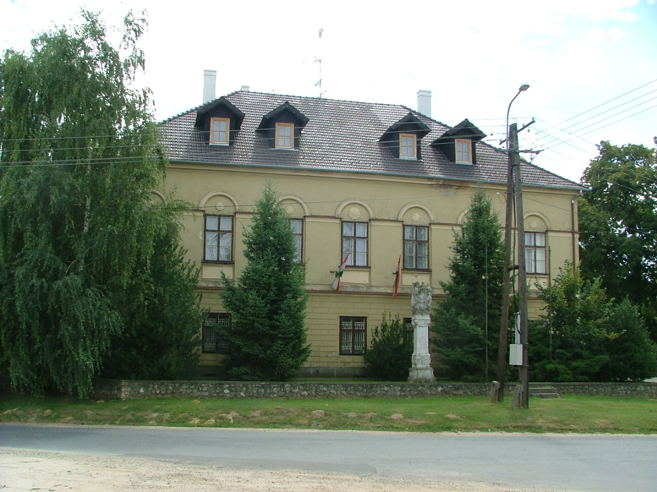 The Széchenyi castle in Iván, used as groundschool for the children from Iván, Csáfordjánosfa, Csér and Pusztacsalád. This is a photo of a monument in Hungary, Identifier: 4466